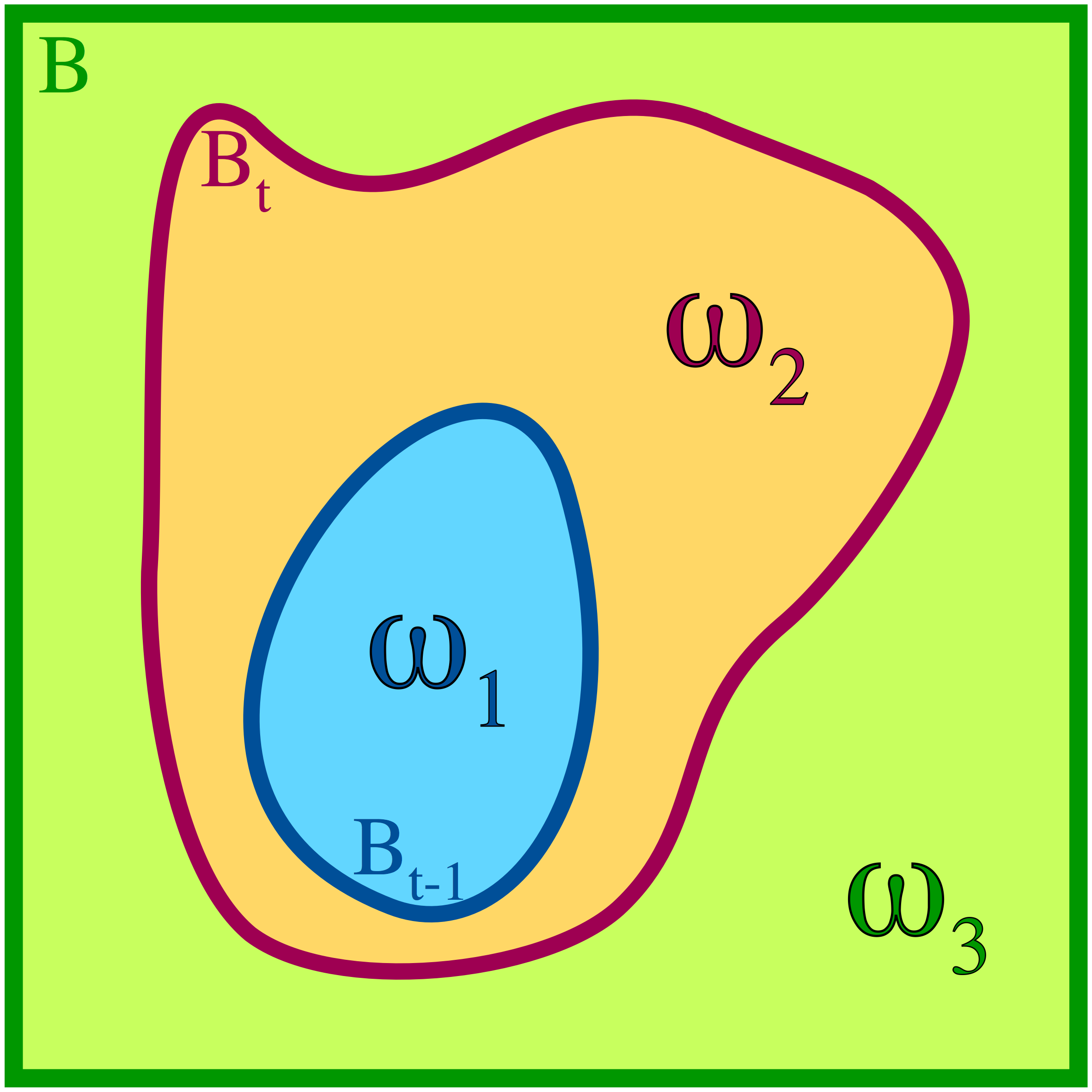 Method of bounded differences